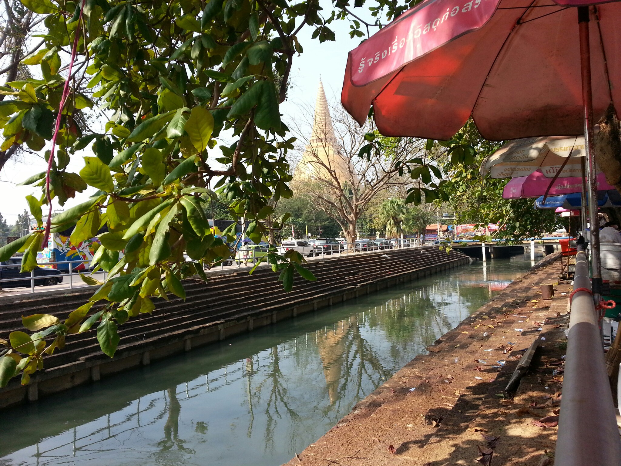 Phra Prathom Chedi, Mueang Nakhon Pathom District, Nakhon Pathom 73000, Thailand